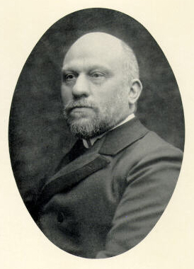 Angelo Mosso (1846–1910), Italian physiologist